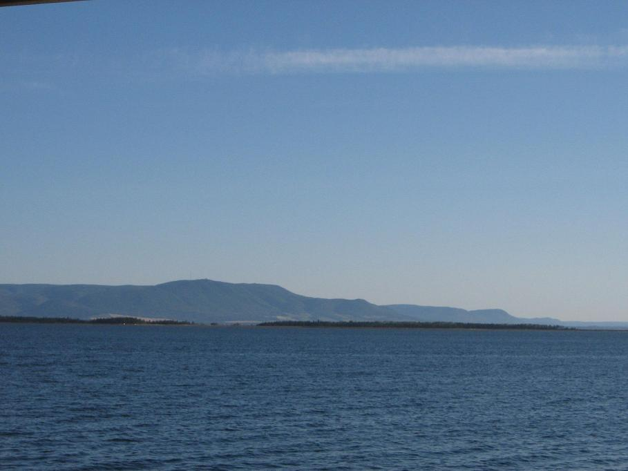 Heron Island in Baie-de-Chaleur as seen from New Mills, New Brunswick with province of Quebec in background.